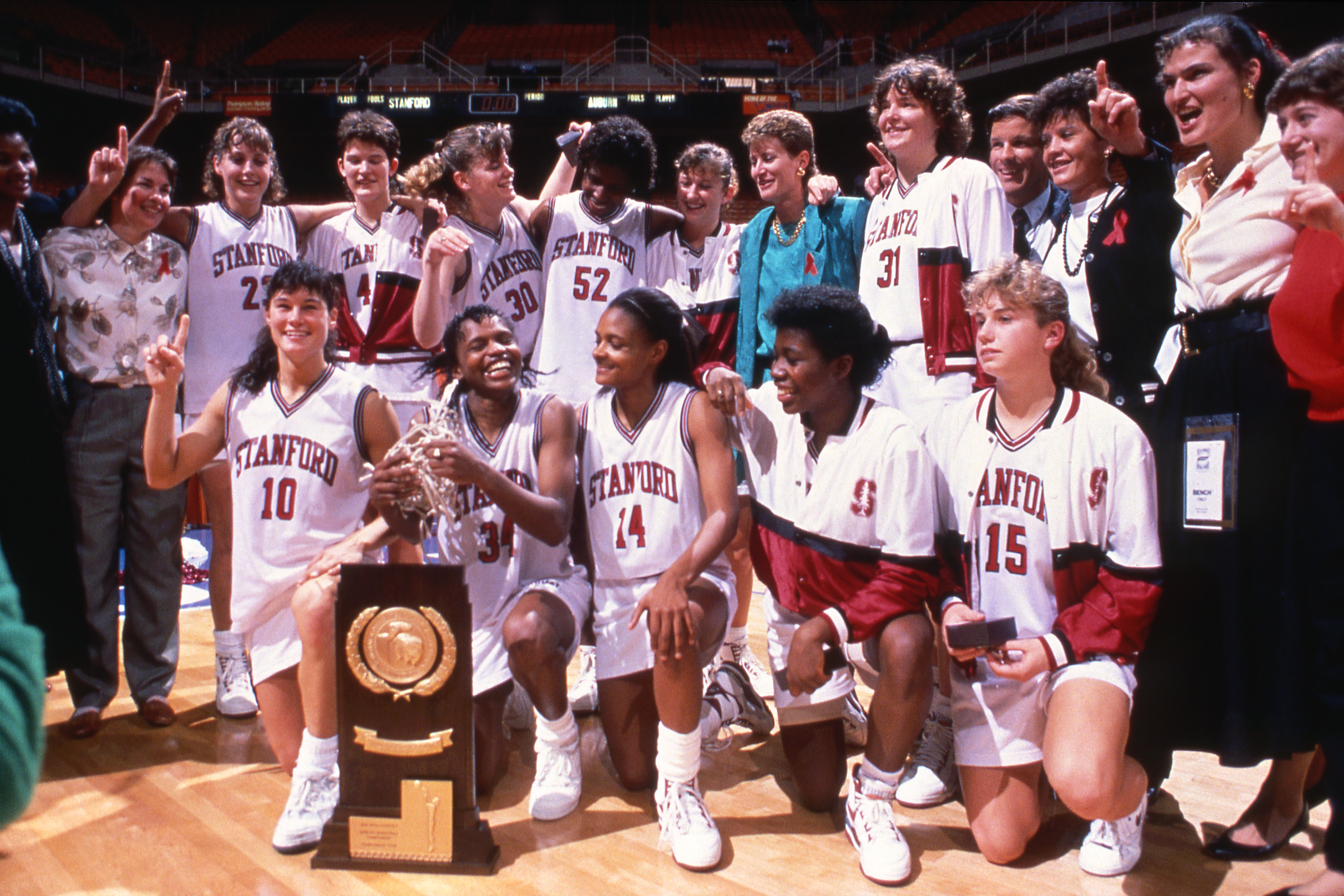 NCAA Women's Basketball 1990 National Championship team, posing for the team picture following the presentation of the championship trophy, April 1, 1990 in Knoxville, Tennessee